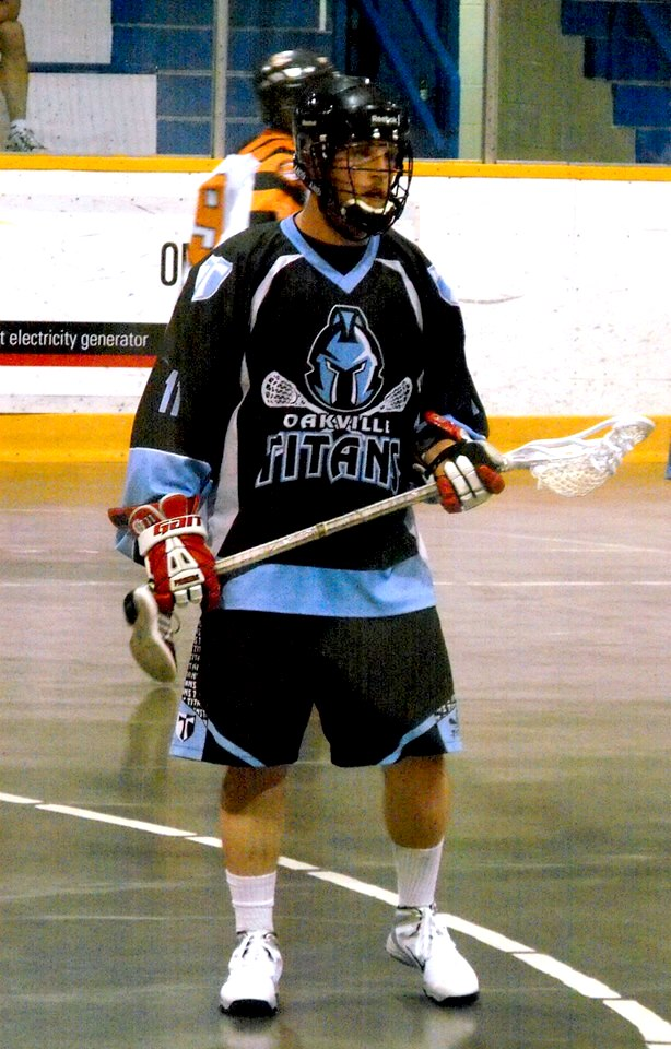 These images of Ontario Senior B Lacrosse Action action during the 2014 season are taken by Devan Mighton.